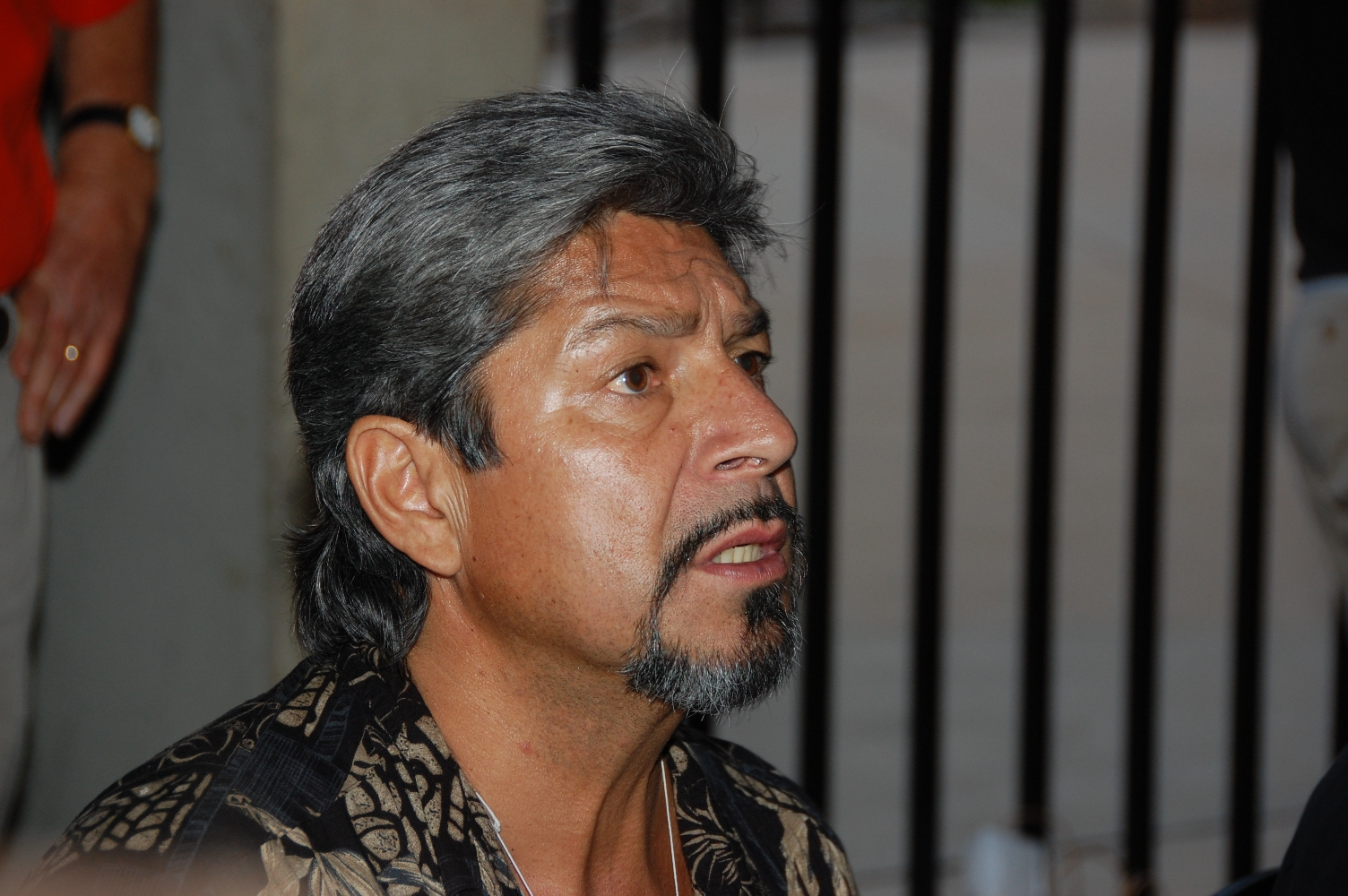 Todd Cruz at 25th Anniversary of Orioles 1983 World Series win